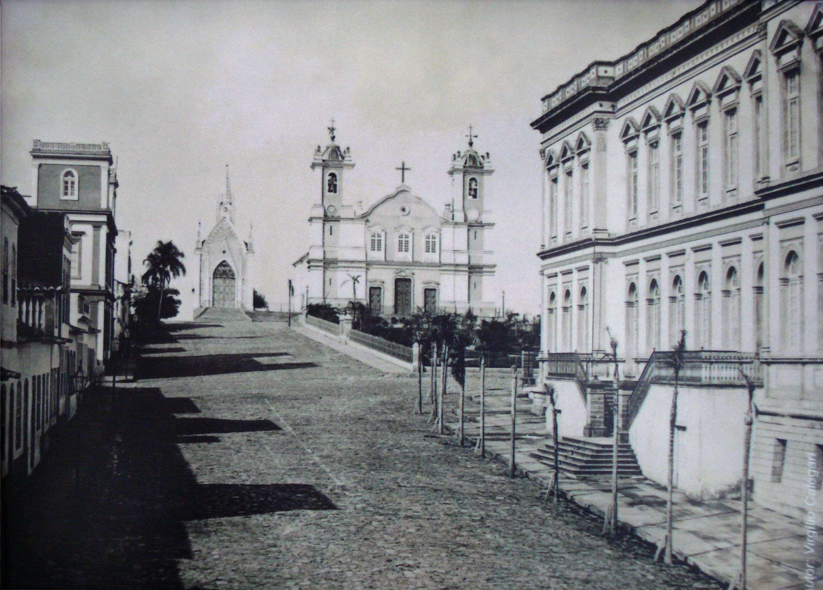 View of Praça da Matriz in Porto Alegre, 2nd half of the 19th century. To the extreme left the old chapel Empire of the Holy Ghost. At the center the old Mother Church of Porto Alegre, and to the extreme right part of the São Pedro Theatre. Collection of Joaquim Felizardo Museum, unknown author.